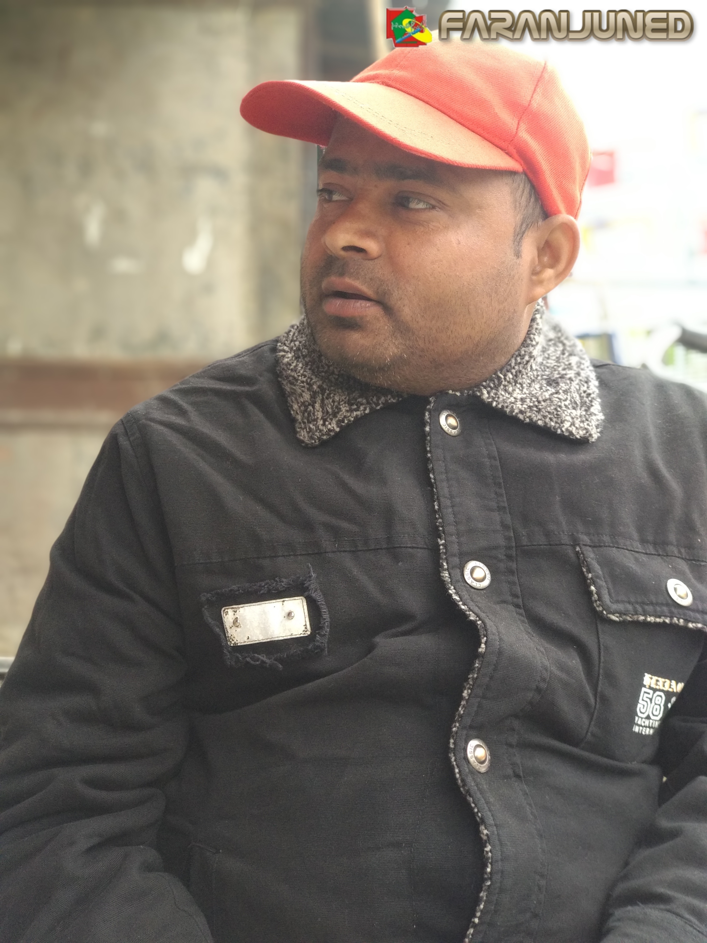 Ashfaq Tabish is Well Know Awadhi and Urdu Poet from Nepalgunj